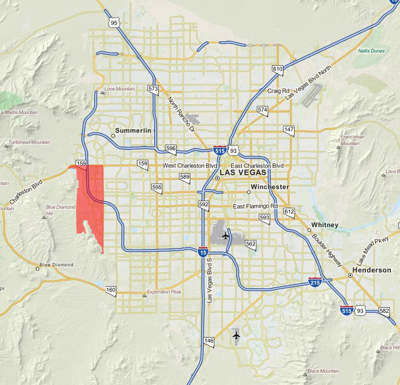 Summerlin South. Updated boundaries.